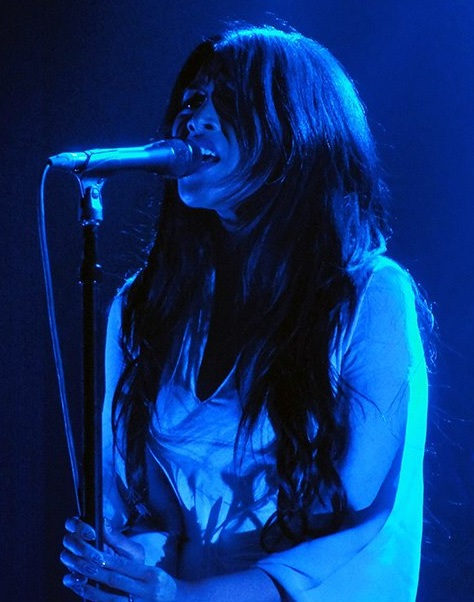 Mariqueen Maandig performing with HTDA.